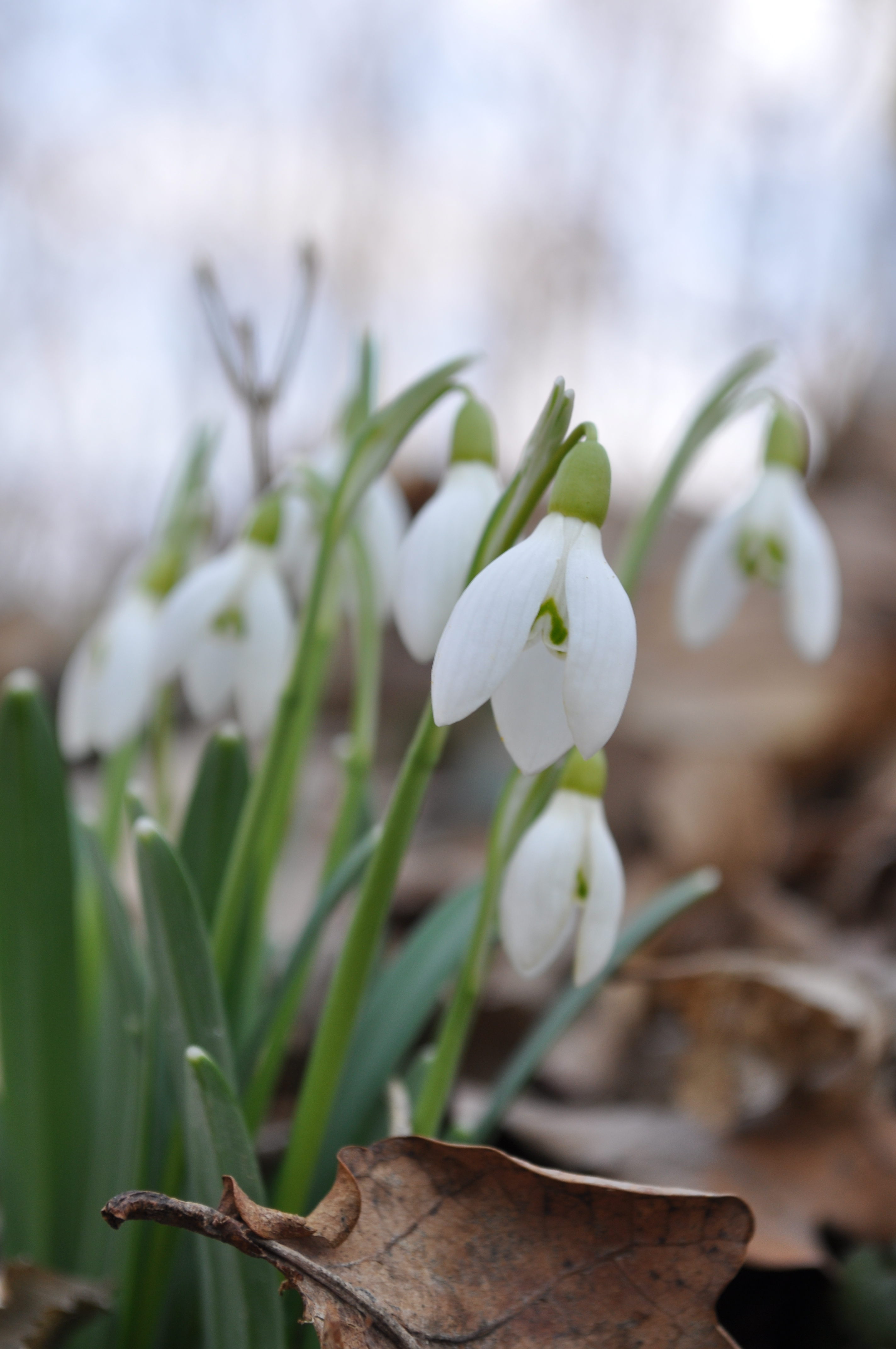 Galanthus nivalis in Natural monument Pod Vrchy in Zlín District, Czech Republic.